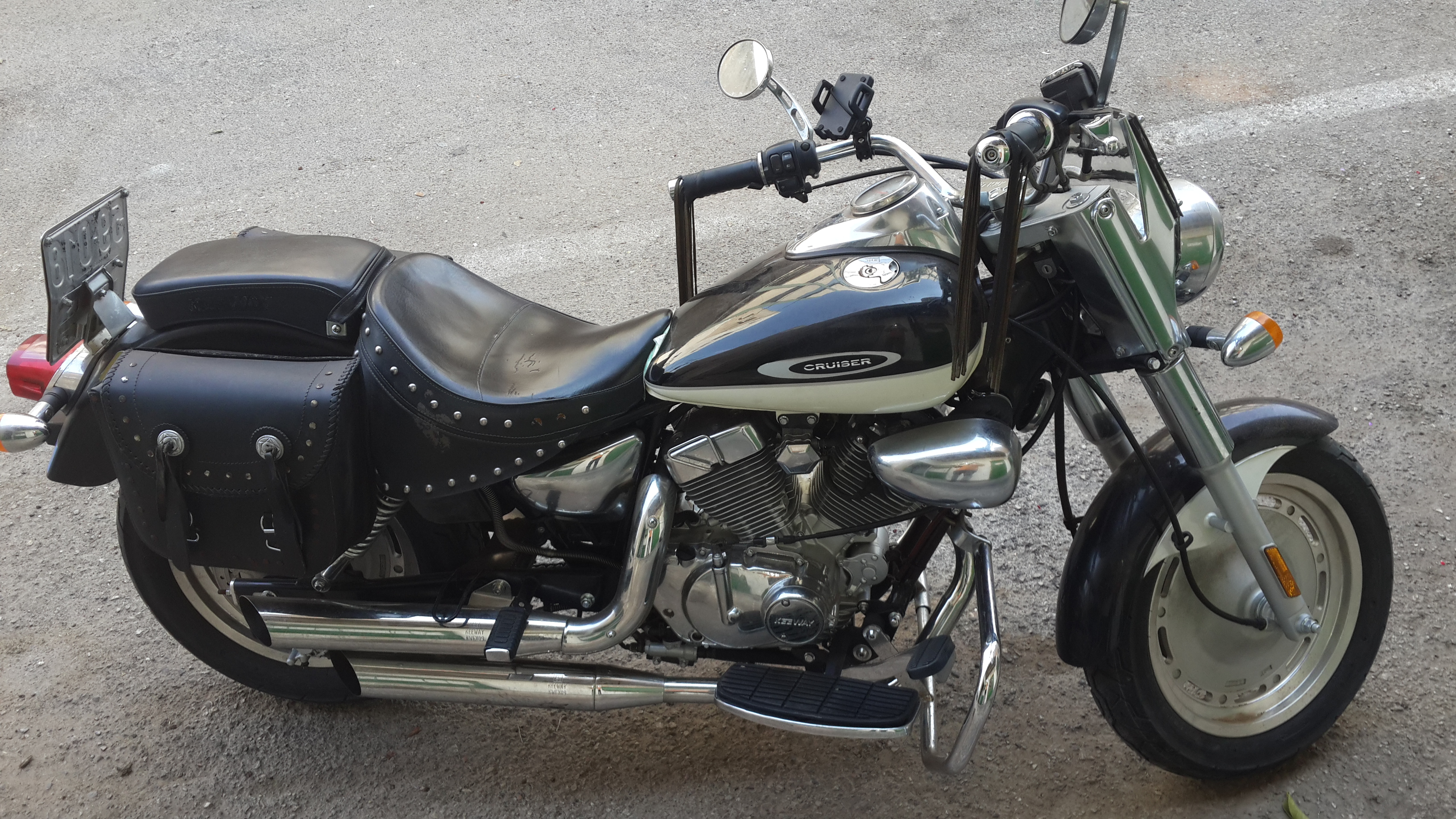 Keeway Cruiser-250 in Israel